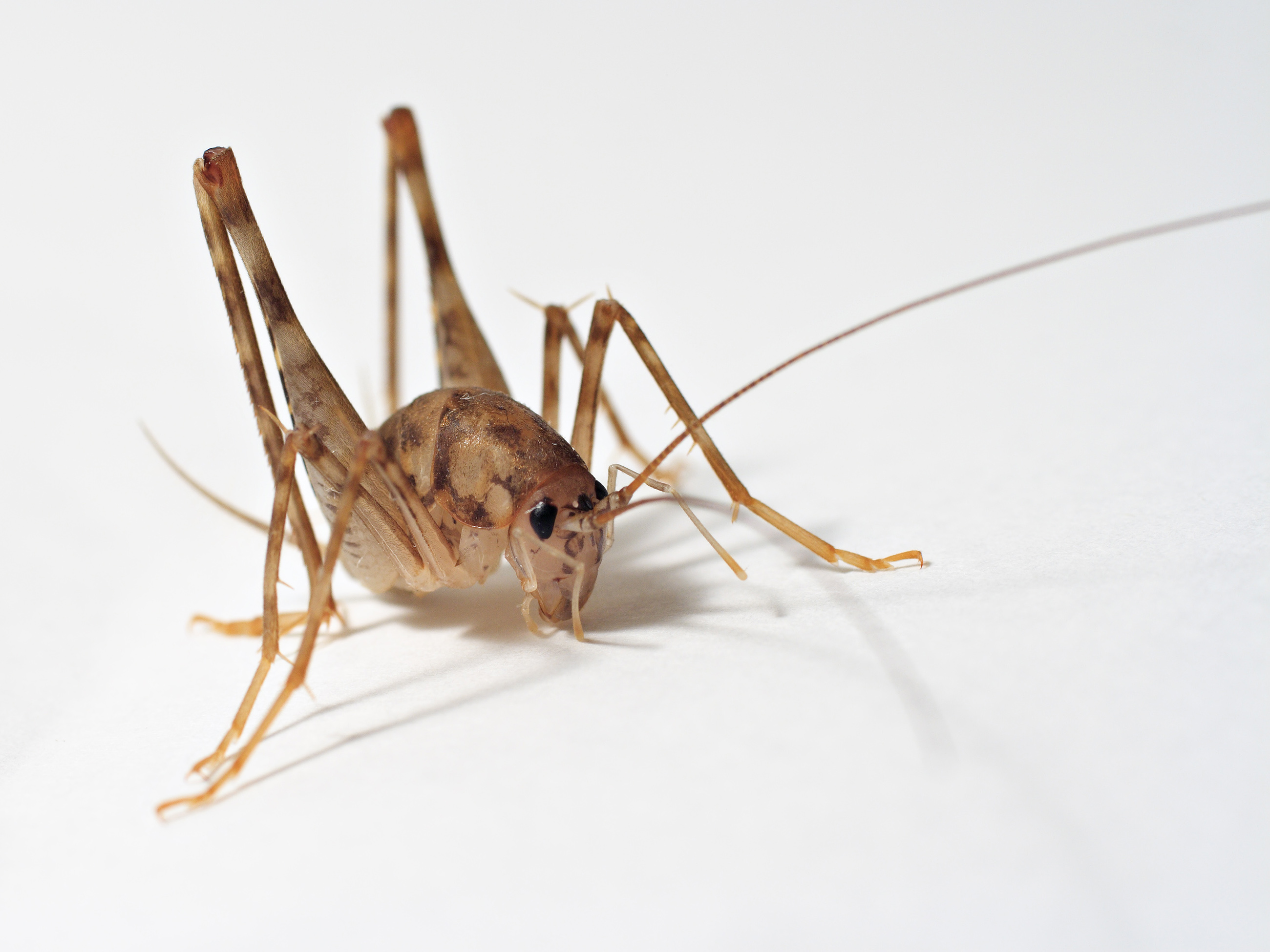 Cricket (Genus probably Ceuthophilus) in eastern United States